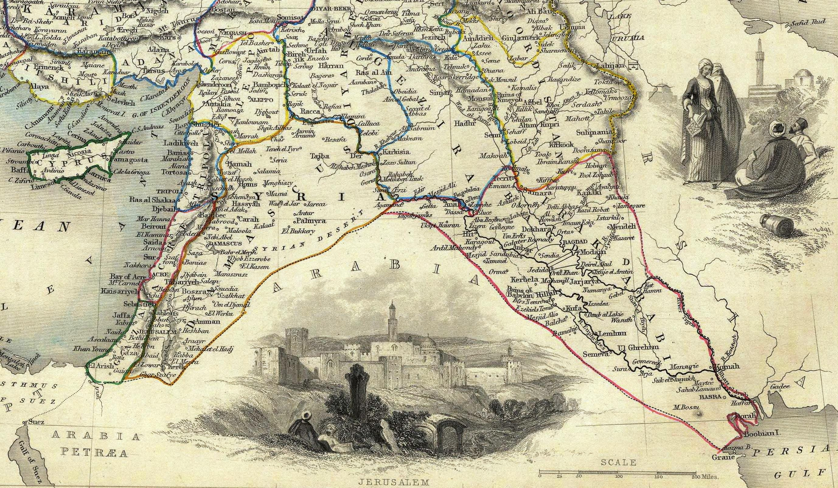 Turkey In Asia. The Illustrations by H. Warren & Engraved by J.B. Allen. The Map Drawn & Engraved by J. Rapkin.